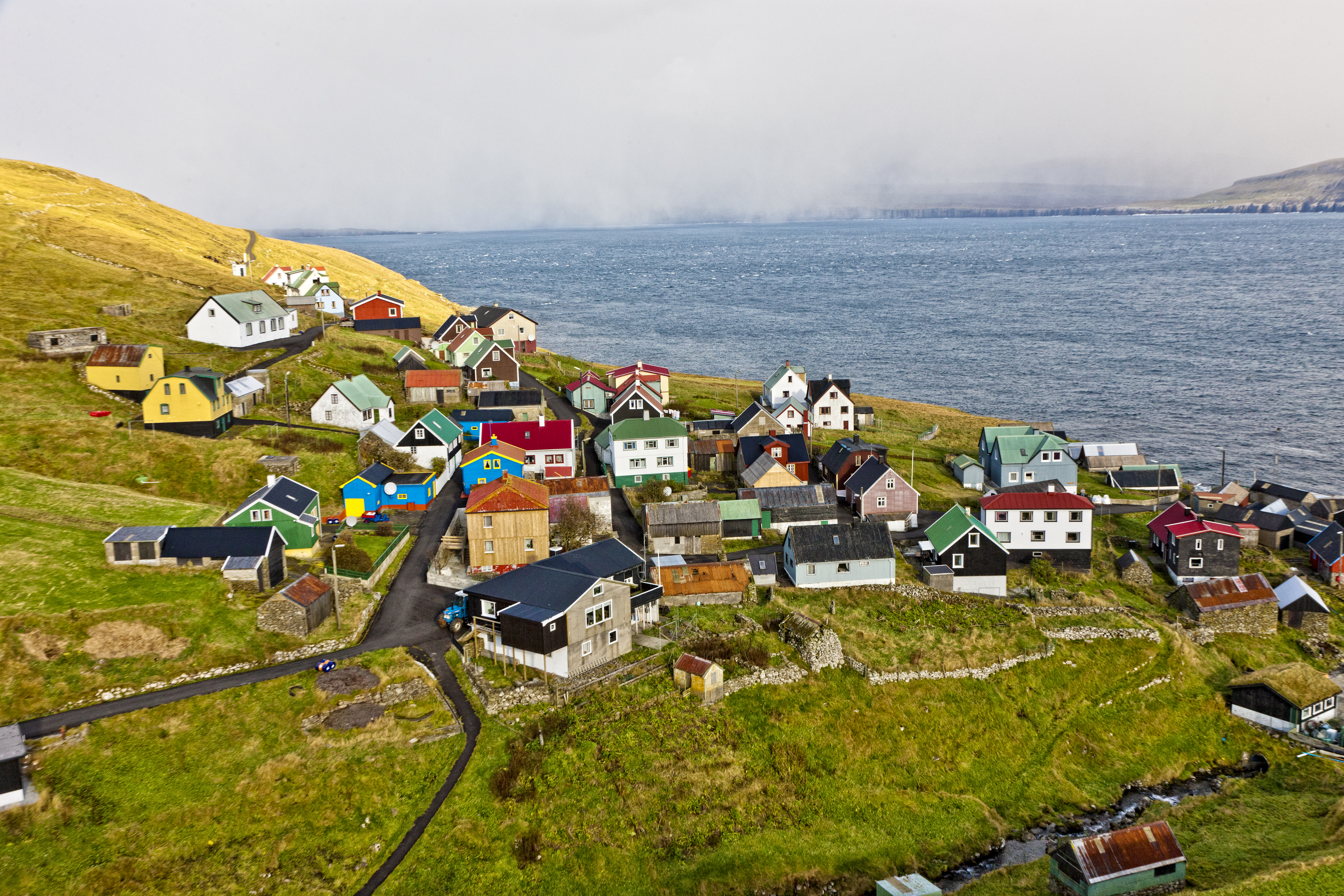 Copyright: Per Morten Abrahamsen